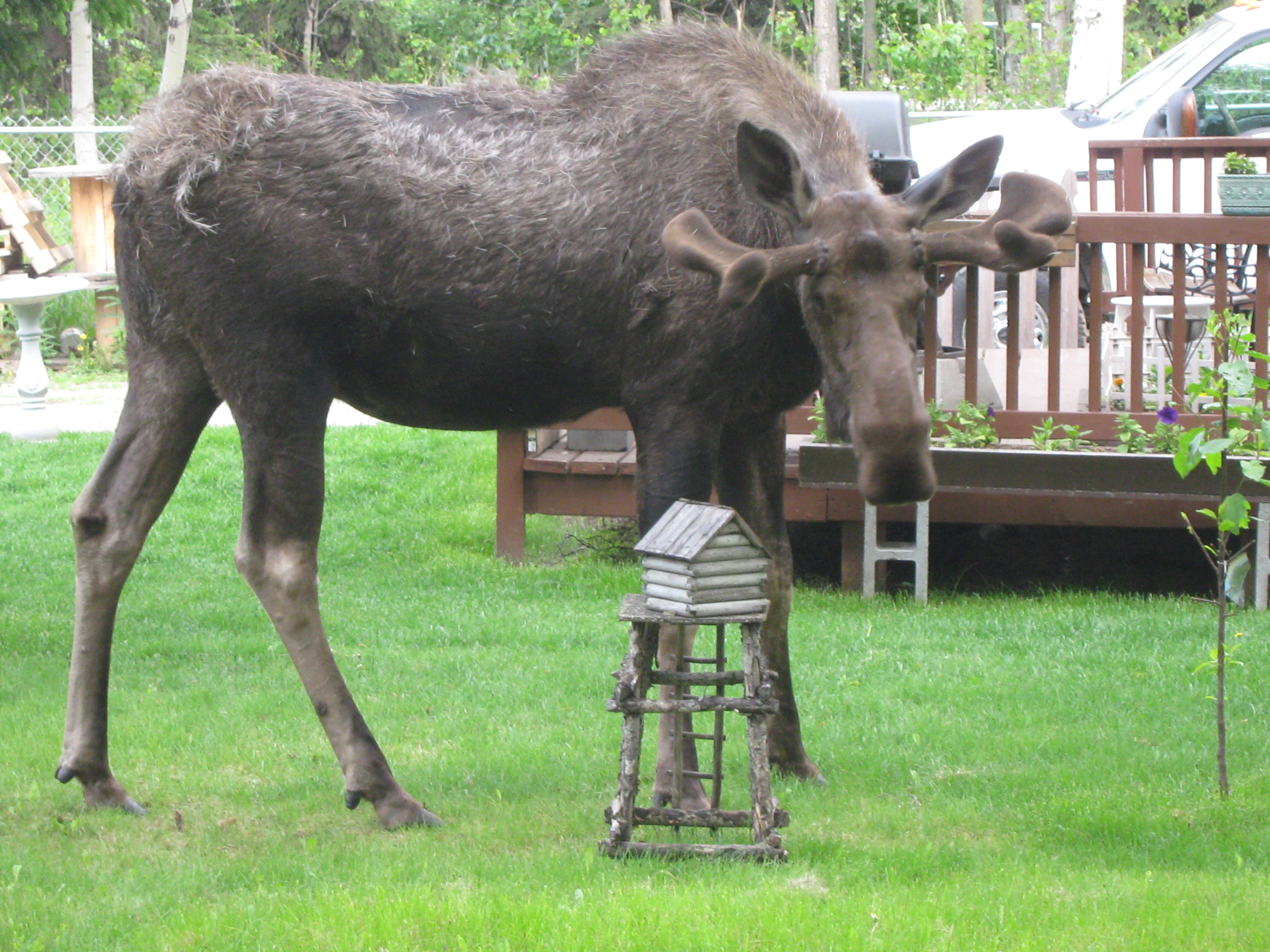 Bull moose in a yard in Anchorage, Alaska, growing new antlers and shedding its winter coat